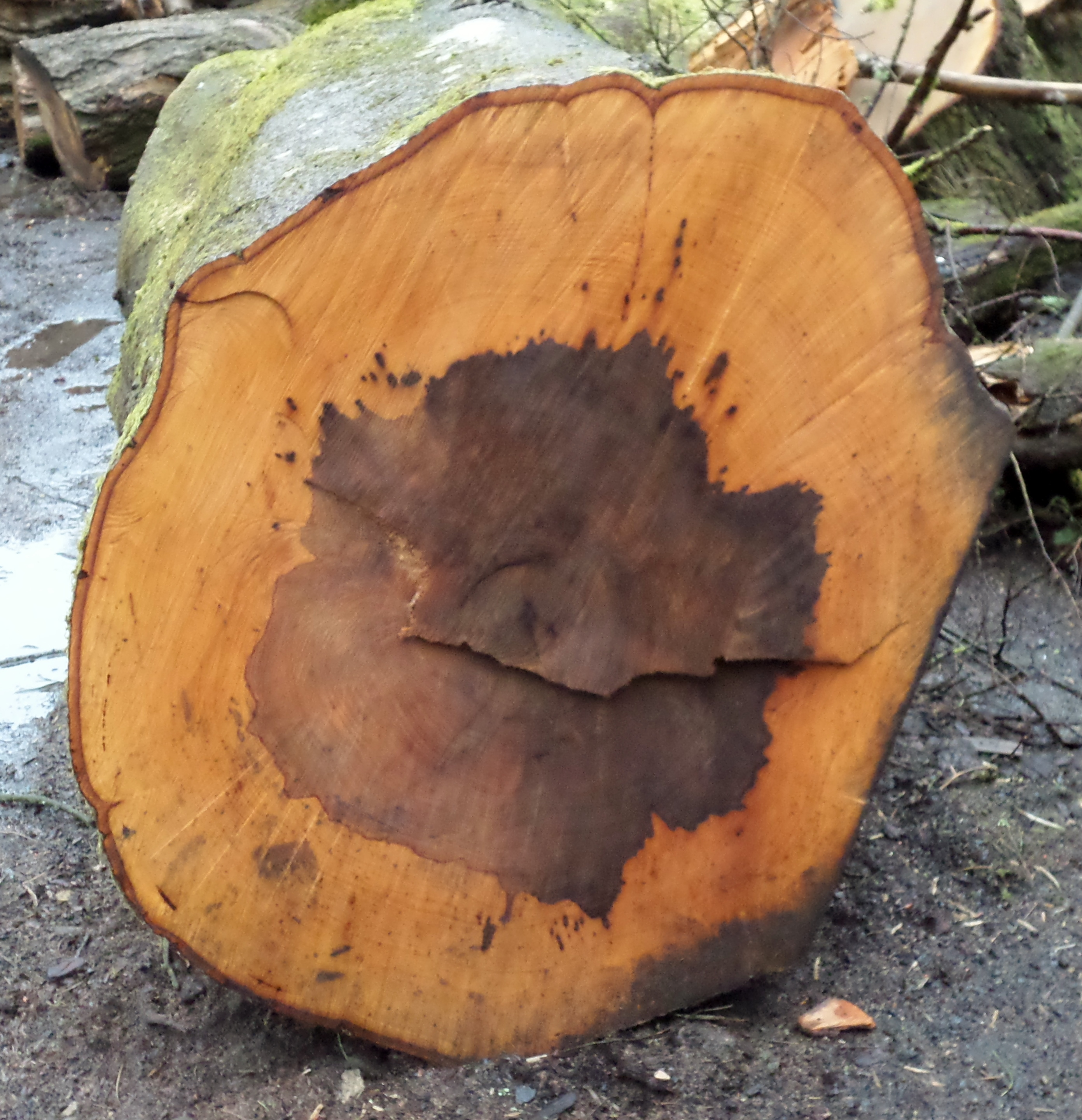 A felled Beech (Fagus sylvatica) tree trunk showing tree rings, heart wood and bark. Dean Castle Country Park, Kilmarnock, East Ayrshire, Scotland.